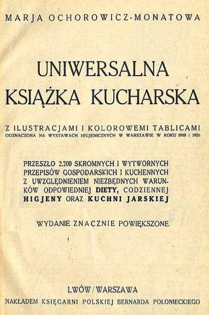 Maria Ochorowicz-Monatowa, Uniwersalna Książka Kucharska, Lwów 1926